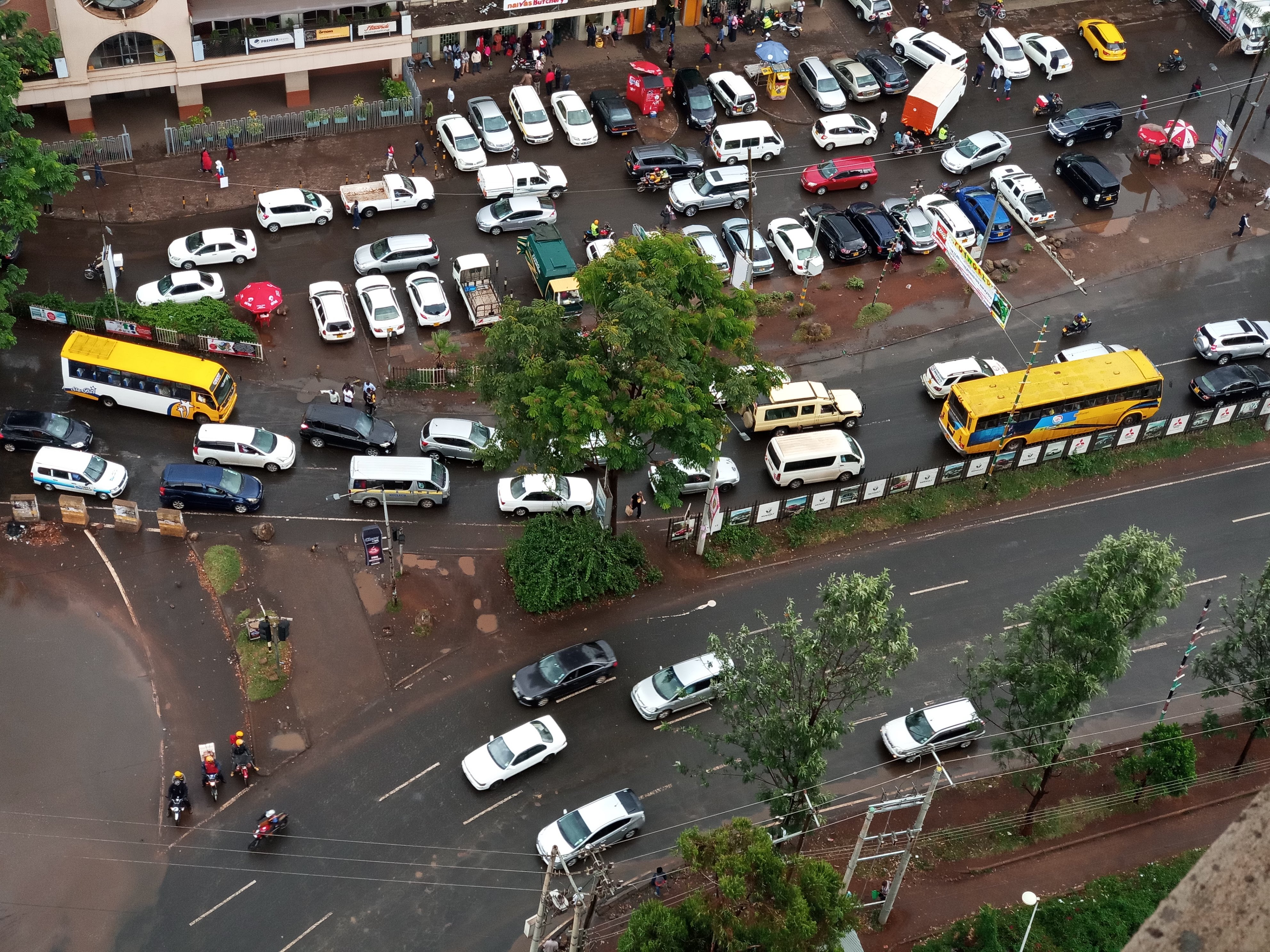 Kenyans waste at least four hours on average whilst stuck in traffic. This is an image with the theme "Africa on the Move or Transport" from: Kenya